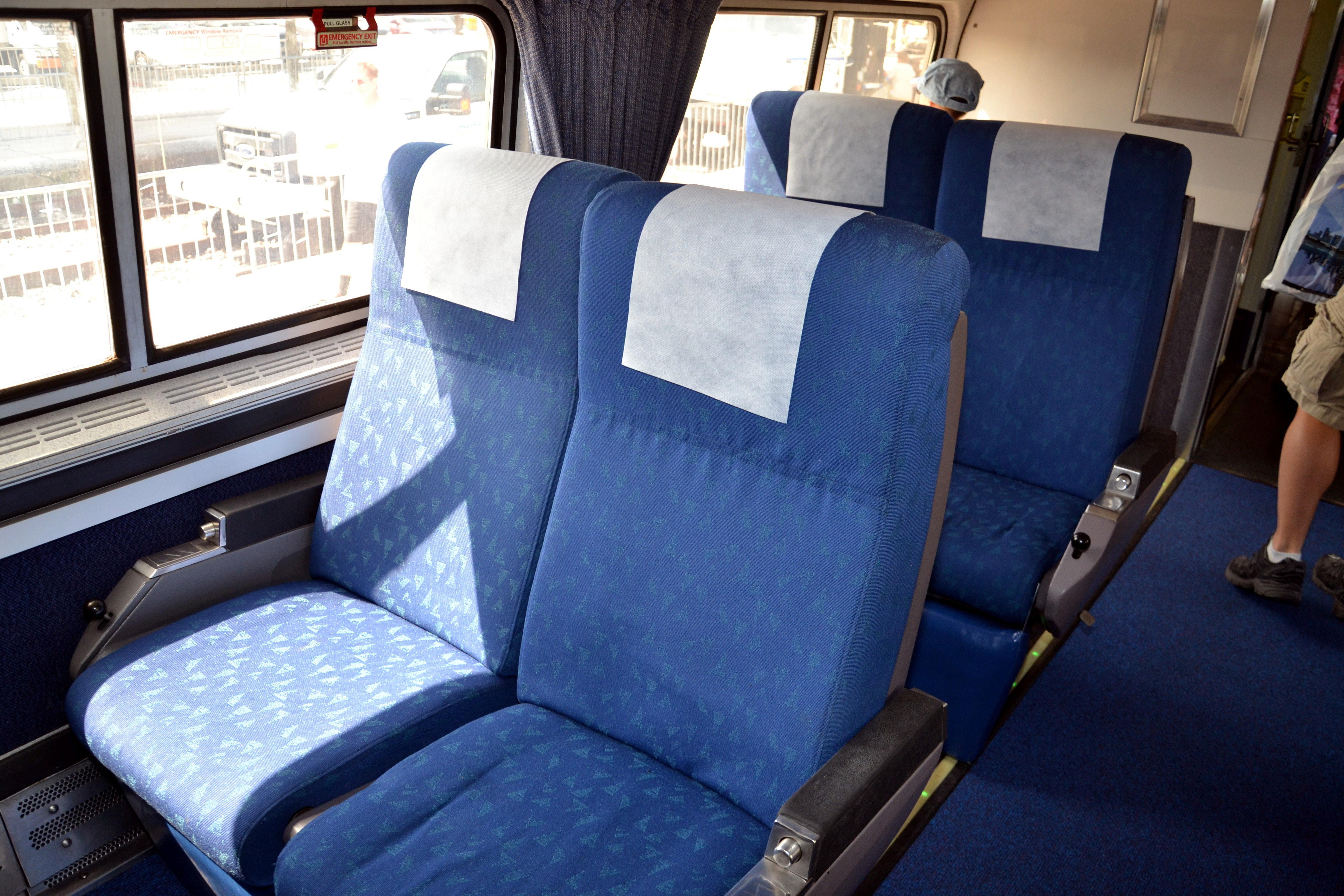 Interior of a Amfleet II Coach car - National Train Day is held each year to introduce the general public to trains and train history. This year it also was a way to celebrate the 75th anniversary of streamline passenger service to Florida so what better place to hold it than Tampa's historic Union Station. Amtrak still uses Tampa Union Station to host the Silver Star, which carries passengers between New York City and Miami.